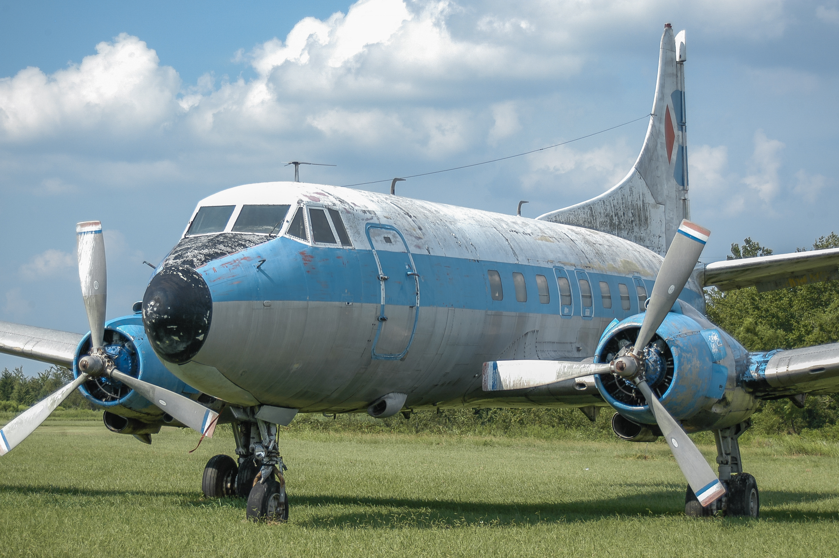 Abandoned Pro Air Martin 404 N255S